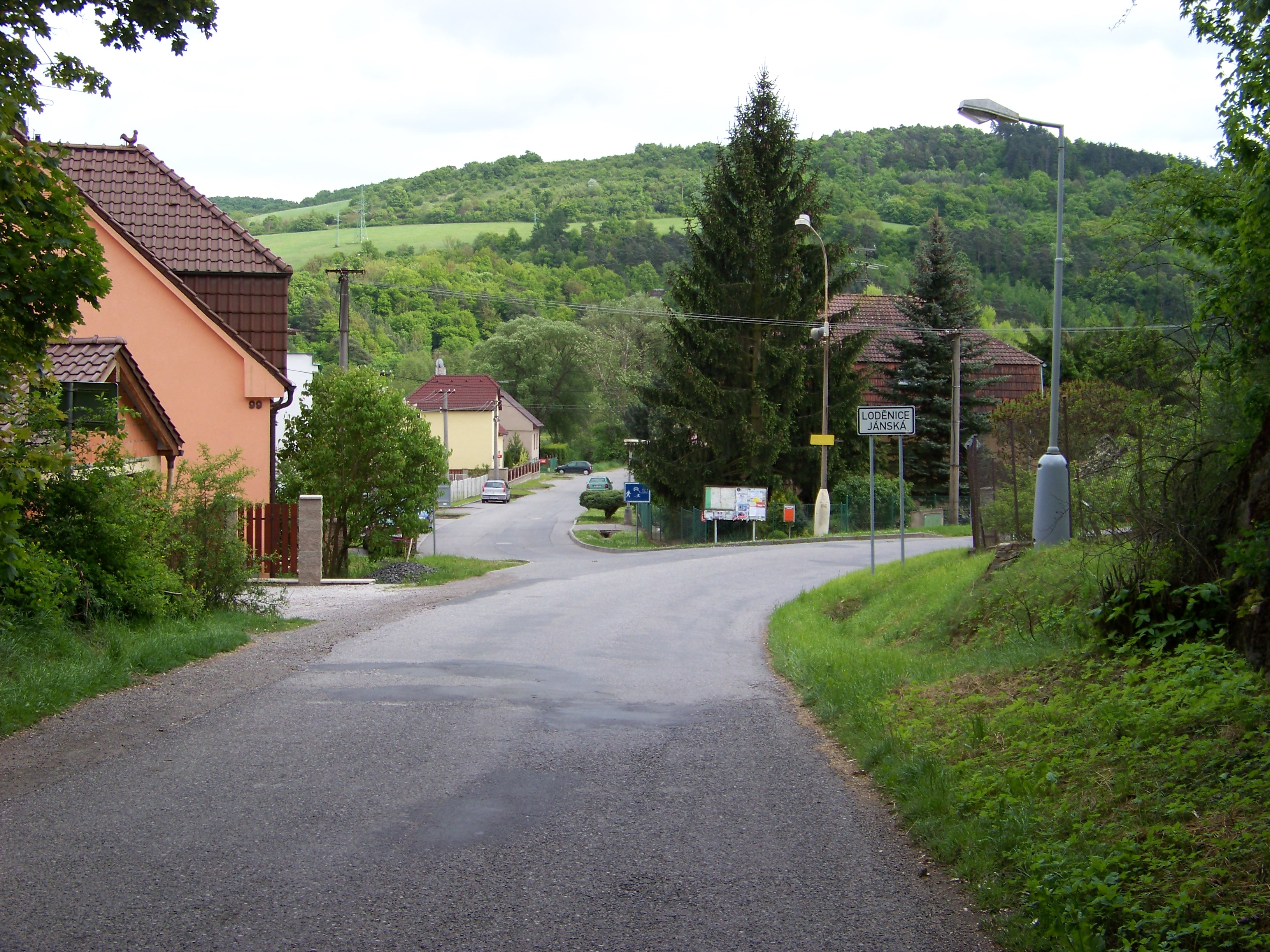 Loděnice-Jánská, Beroun District, Central Bohemian Region, Czech Republic. Road III/1169, Sedlecká and Ke brodu street.